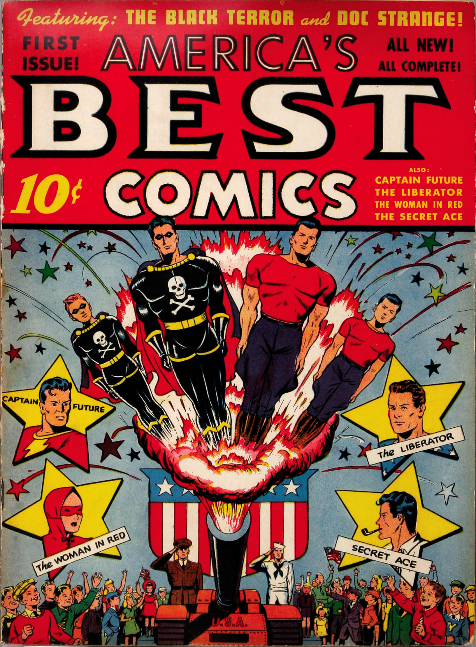 America's Best Comics #1, February 1942